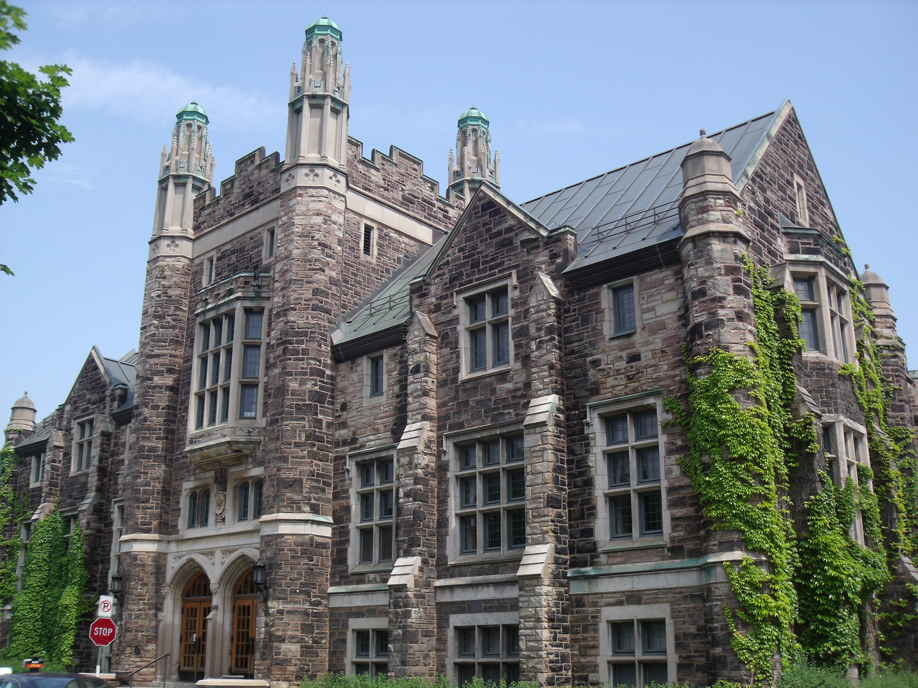 Victoria Hall Community Center, 4626 Sherbrooke Street West, Westmount, Montreal, Quebec, Canada.